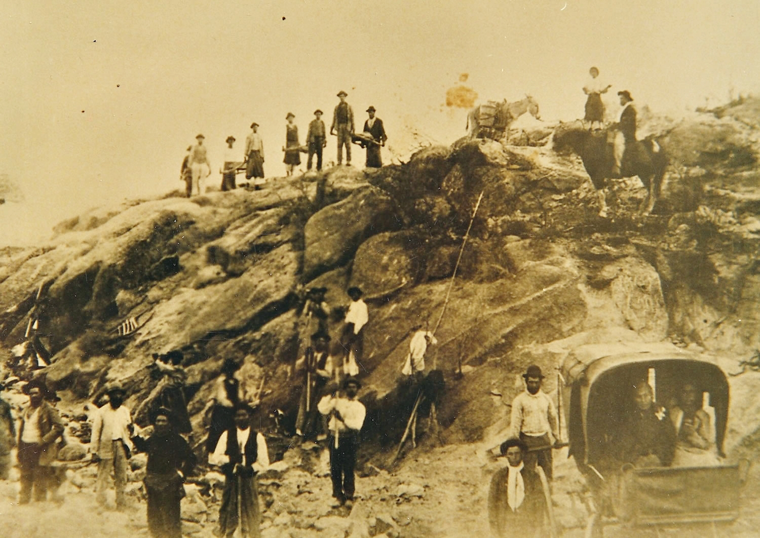 Argentine priest José Gabriel Brochero (1840-1914) and a group of people working on the construction of a road in Traslasierra (ca. 1880s).